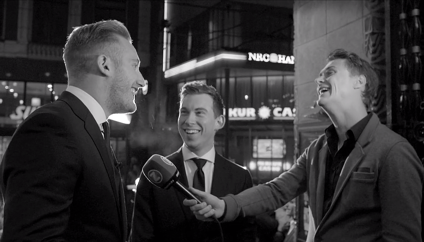 Dutch dj and producer Hardwell during the premiere of his movie 2015 "I Am Hardwell - Living the Dream"